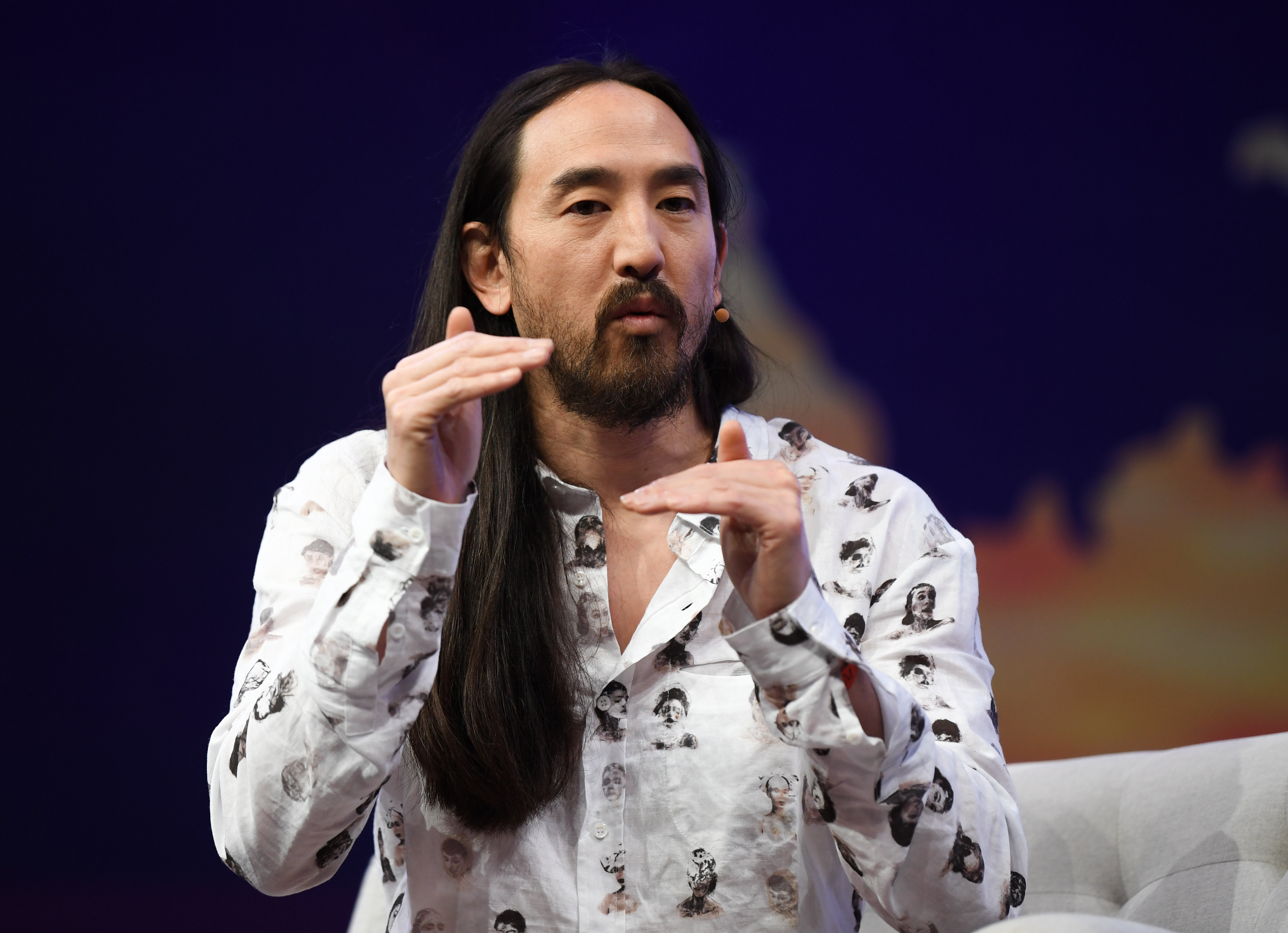 Steve Aoki on stage during day three of Collision 2019 at Enercare Center in Toronto, Canada.